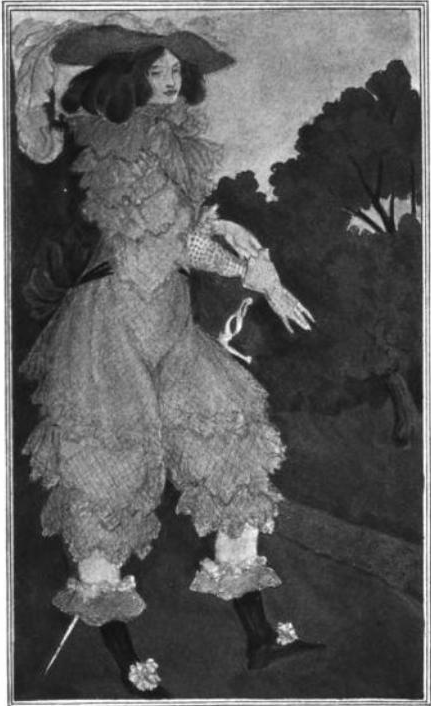 Mademoiselle de Maupin, based on the real Julie d'Aubigny. A Photogravure Reproduction by Boussod Valadon and Co from a Water colour painted in 1897 and contained in Six Drawings illustrating Mademoiselle de Maupín published by Leonard Smithers and Co 1898